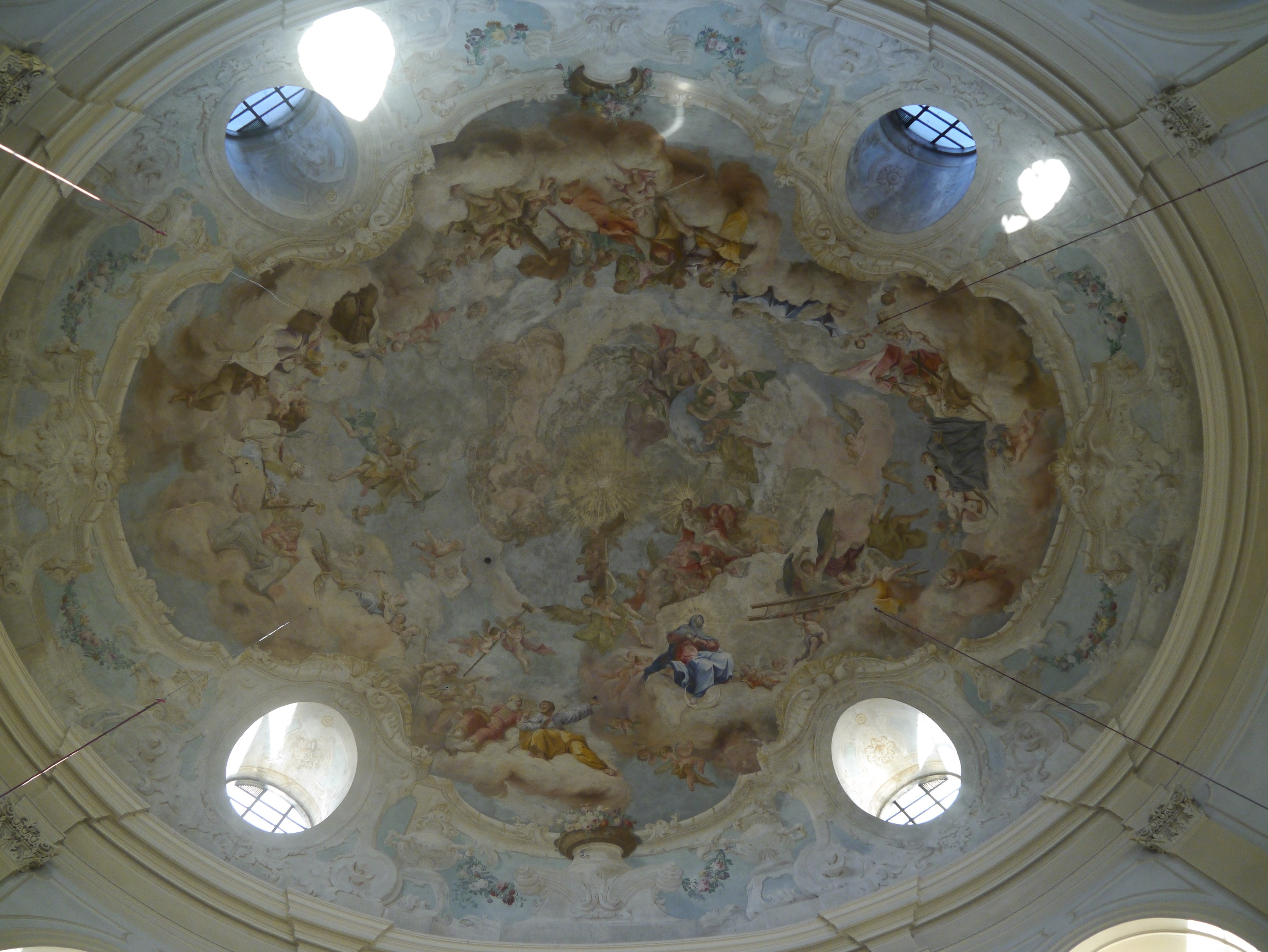 Dome of Maria Dreieichen Basilica, Maria Dreieichen